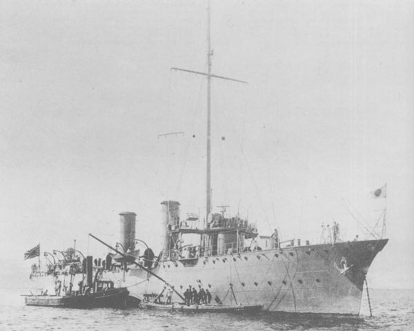 Picture of IJN dispatch vessel YODO at Yokosuka Naval Base.